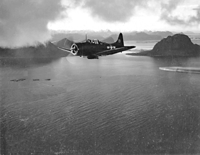 A Douglas SBD-5 Dauntless of U.S. Navy bombing squadron VB-4 during Operation Leader , on 4 October 1943, flying from the aircraft carrier USS Ranger (CV-4). The objective of the force was the Norwegian port of Bodø. The task force reached launch position off Vestfjord before dawn 4 October completely undetected. At 0618, Ranger launched 20 Dauntless dive bombers and an escort of eight Grumman F4F-4 Wildcat fighters of VF-4. One division of dive bombers attacked the 8,000-ton freighter LaPlata, while the rest continued north to attack a small German convoy. They severely damaged a 10,000-ton tanker and a smaller troop transport. They also sank two of four small German merchantmen in the Bodø roadstead. The SBD "4-B-19" was piloted by Lt(jg) Clyde A. Tucker with ARM2c Stephen D. Bakran as gunner and passes Kunna Head South of Bodø. It was one of two planes later lost in the attack.